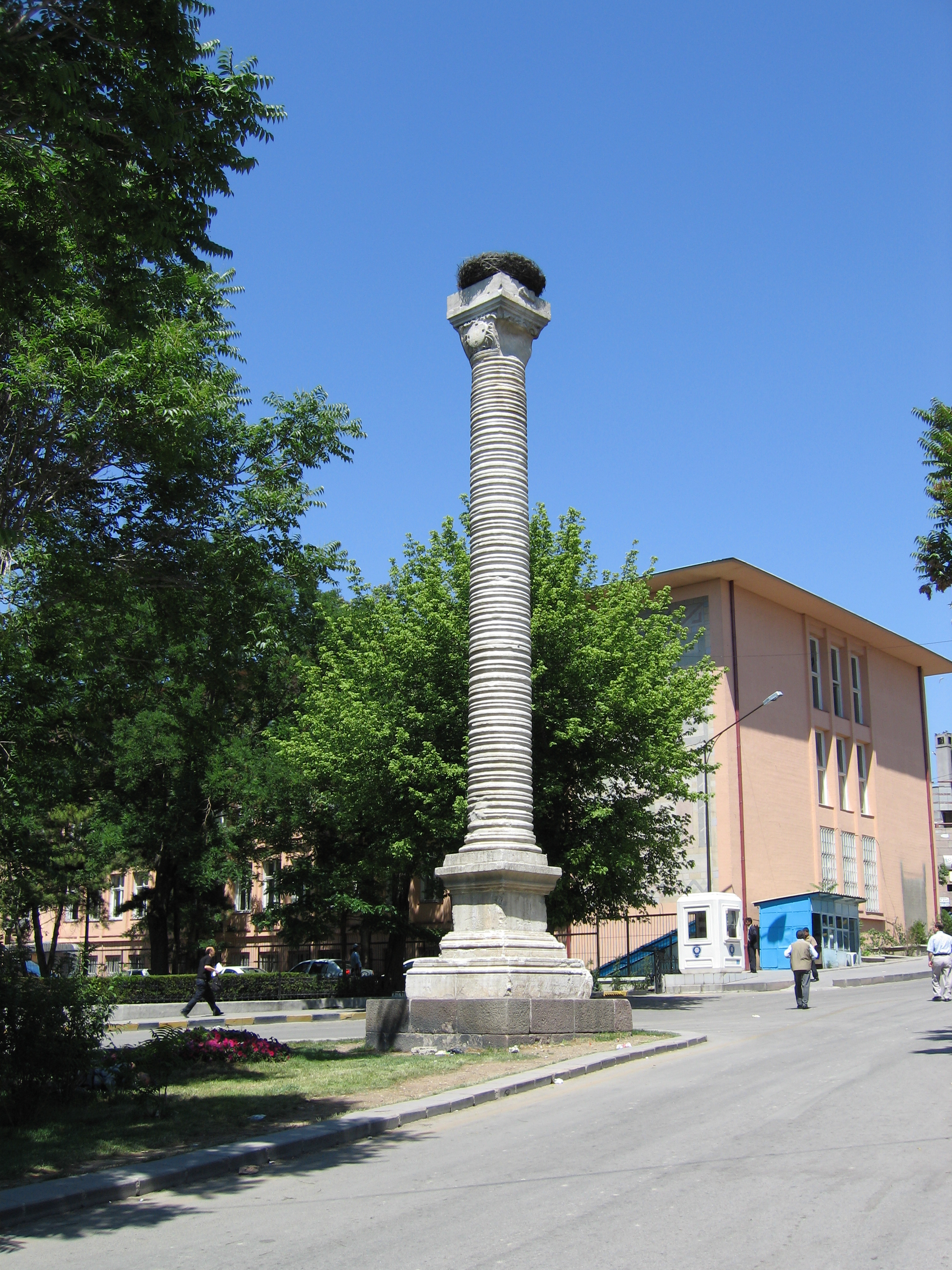 Julian's column in Ankara. It was erected in 362, in occasion of the visit of the Roman Emperor to the city, on his way to the Sassanid Empire frontier.